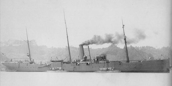 IJN Toyohashi and SS-4, SS-5 off Yokosuka.